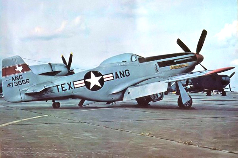 111th Fighter Squadron - North American F-51D-25-NA Mustang 44-73656 Later sold and on civil registry as N5073K with Duncan Aeromotive, Galveston, TX. A mystery may be emerging here! According to an article in a 1990 edition of 'FlyPast' magazine, this aircraft became N5073K in February 1958 and was sold (probably illegally) to the EL Salvador AF in 1968 as FAS406. The article goes on to say that it returned to USA in 1974 under the false identity of 44-12473, was registered N32FF and later N2151D, being by 1990 painted as 44-14273 'Moonbeam McSwine'. However, both N5073K and N2151D appear to be current in the Landings database, N5073K being quoted as 44-73656 and N2151D being quoted as 'P-51D 44-12473', although 44-12473 is/was a P-51K! The current FAA database lists the airfrme as being 44-12473. Aircraft was repainted as 44-14273, but the numbers got transposed on the registration document as 44-12473.